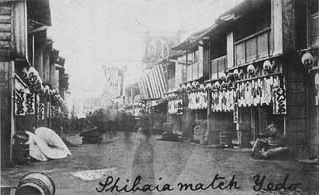 Shibaia match Yedo (Theater district of Edo) by Charles Appleton Longfellow (1844–93, the oldest son of Henry Wadsworth Longfellow)